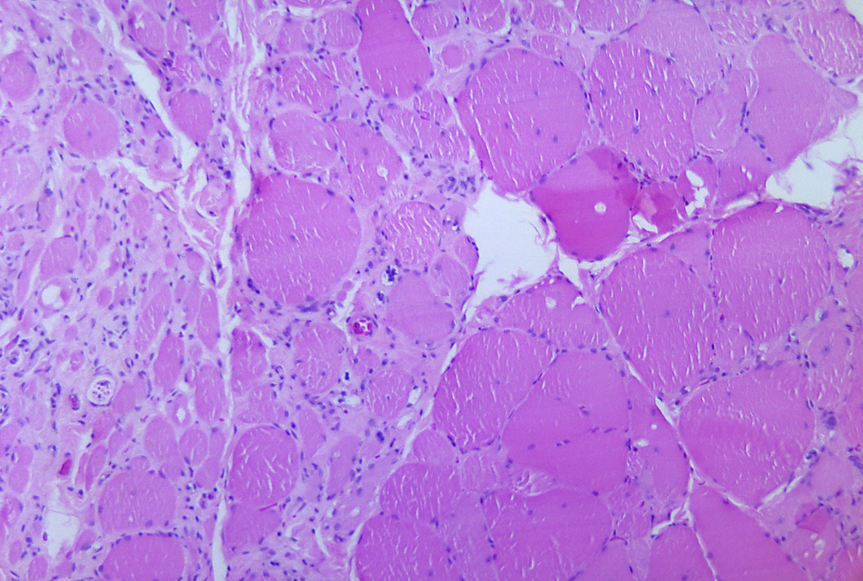 A photomicrograph of skeletal muscle tissue revealing myotonic dystrophic changes as a result of Polio Type III. When spinal neurons die, Wallerian degeneration takes place resulting in muscle weakness of those muscles once innervated by the now dead neurons (denervated). The degree of paralysis is directly correlated to the number of deceased neurons.